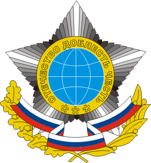 Emblem of the Foreign Intelligence Service of the Russian Federation